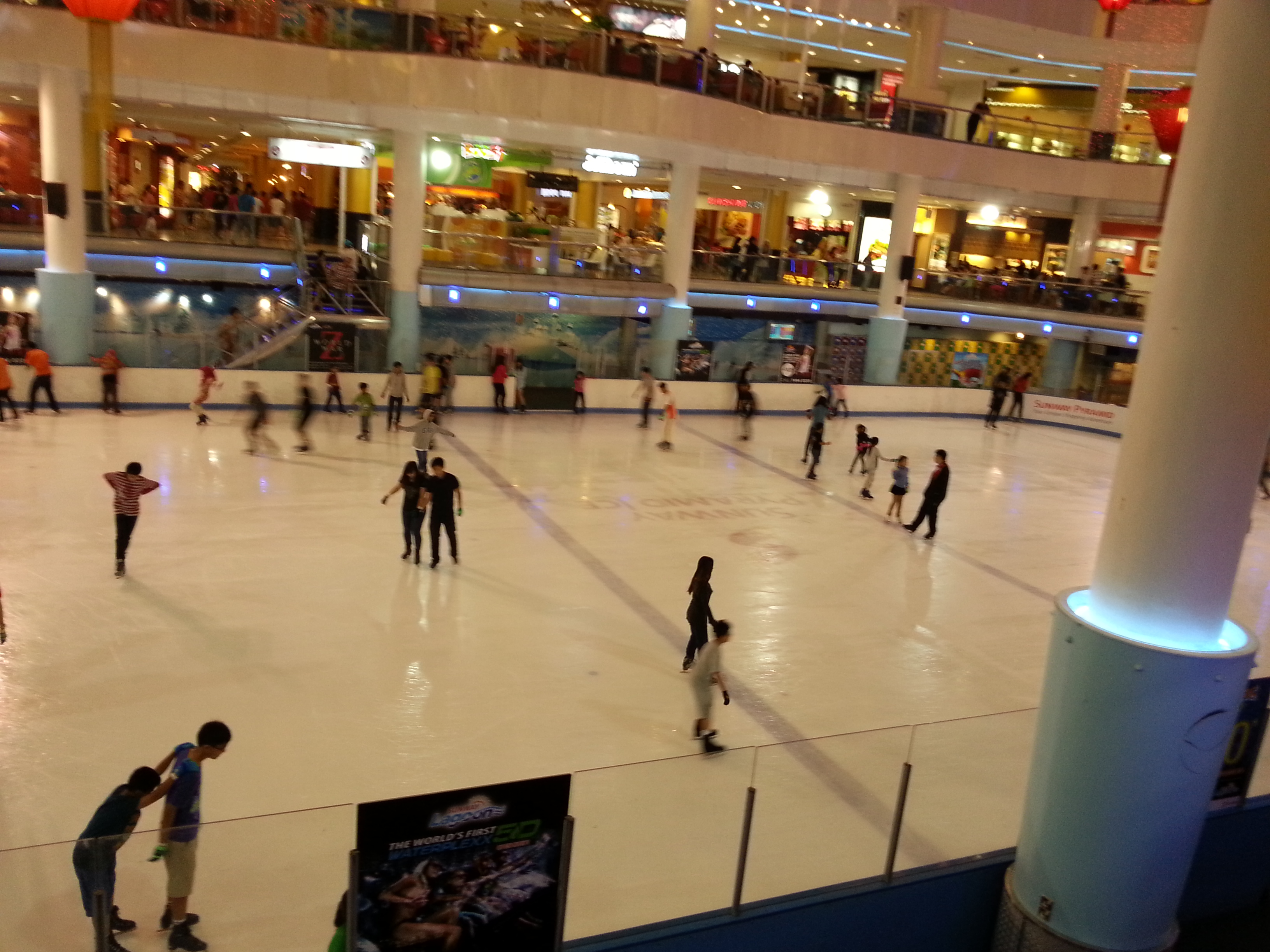 People skating on ice at Sunway Pyramid, Malaysia.